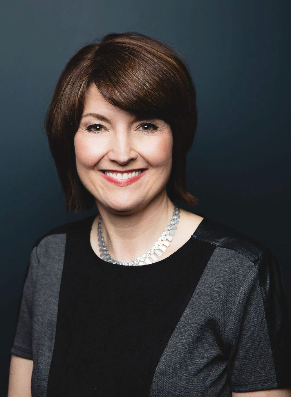 Cathy McMorris Rodgers official photo